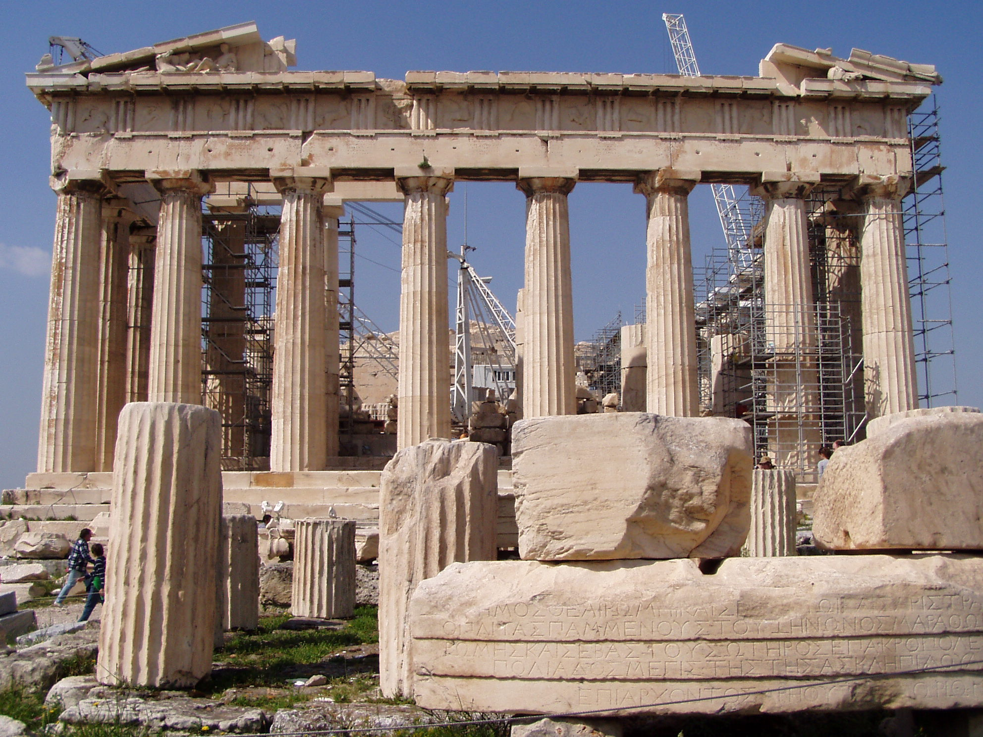 This is the east side of the Parthenon at the Acropolis in Athens.